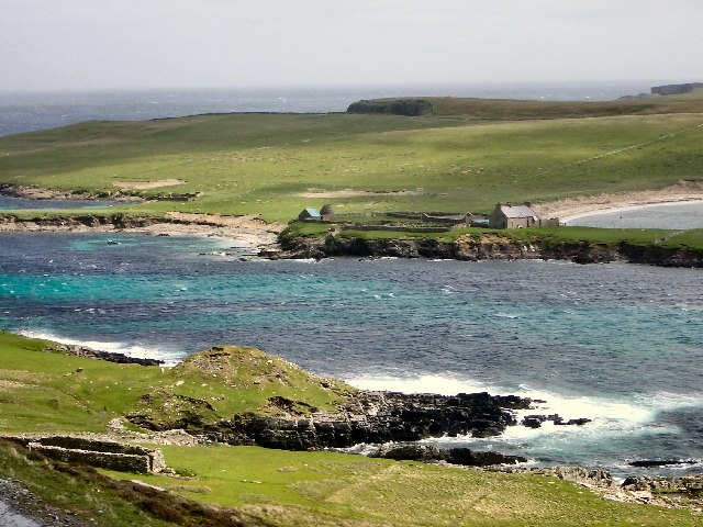 Noss sound from Bressay with Isle of Noss in the background, Shetland, Scotland